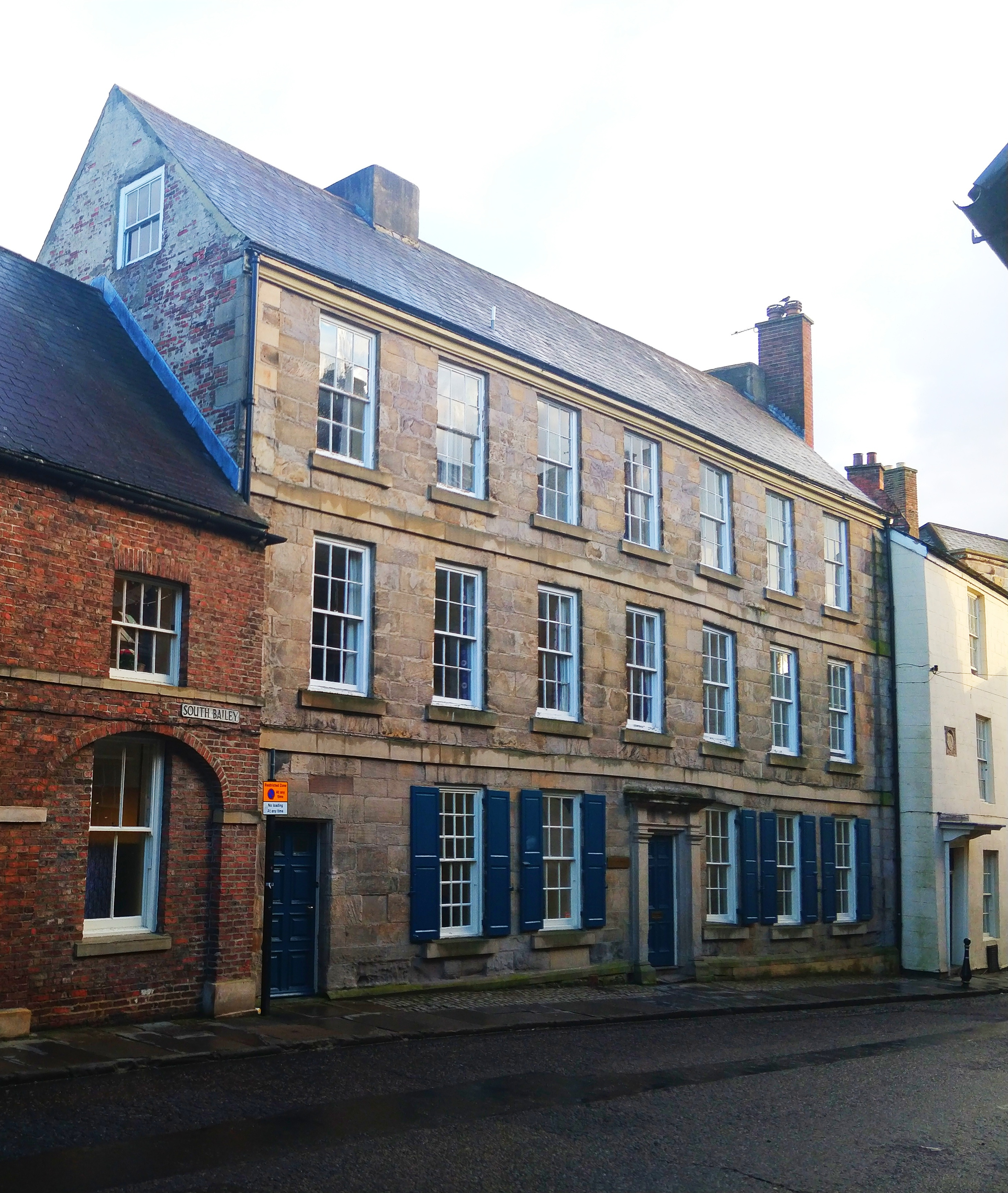 1 South Bailey, Durham. First home of St Chad's Hall. Now Linton House of St John's College.